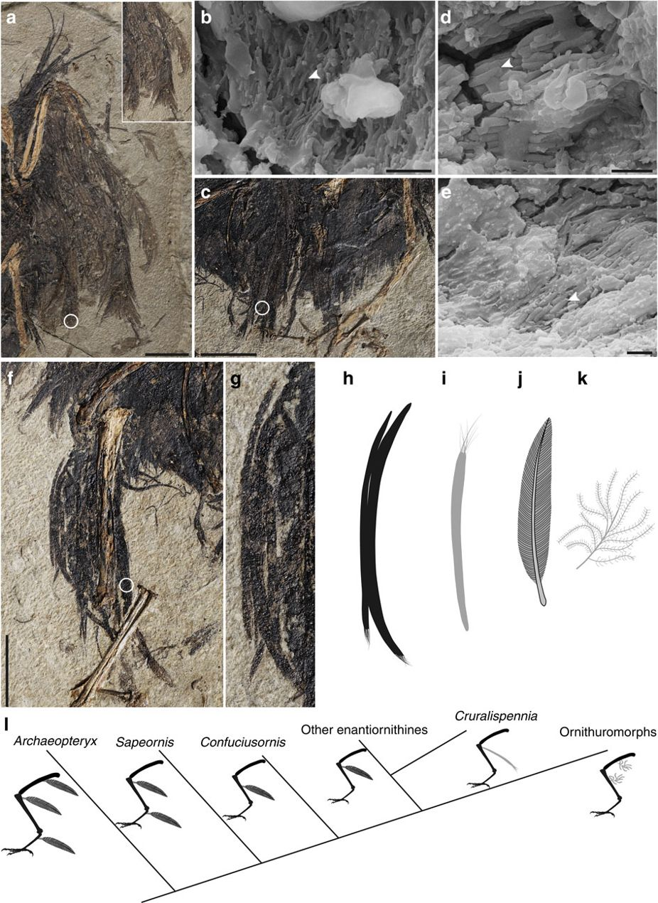 Plumage of Cruralispennia multidonta and leg feather morphotype of basal birds (IVPP V21711).